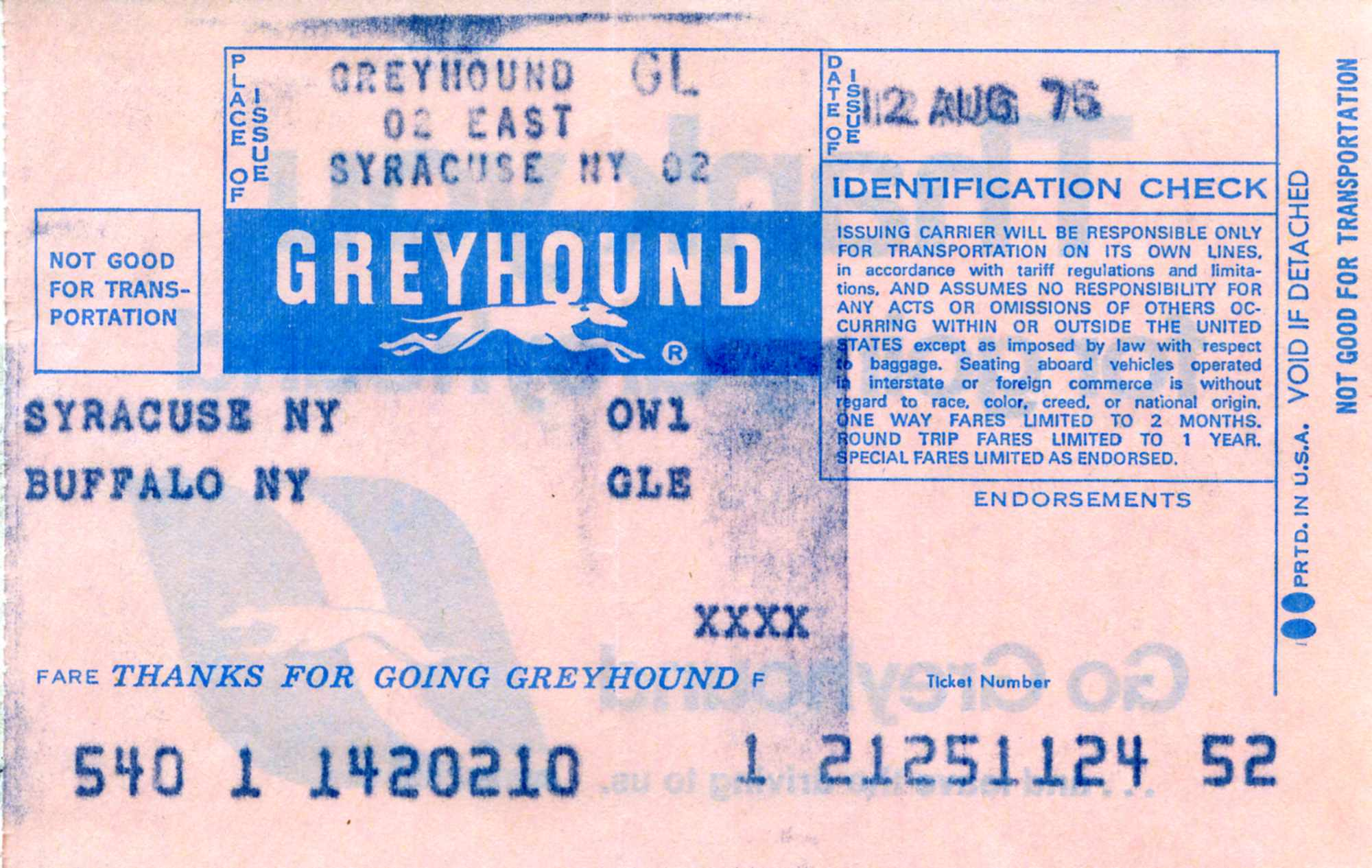 United States of America, Greyhound Lines bus ticket passanger’s copy from Syracuse to Buffalo issued on August 12, 1975.